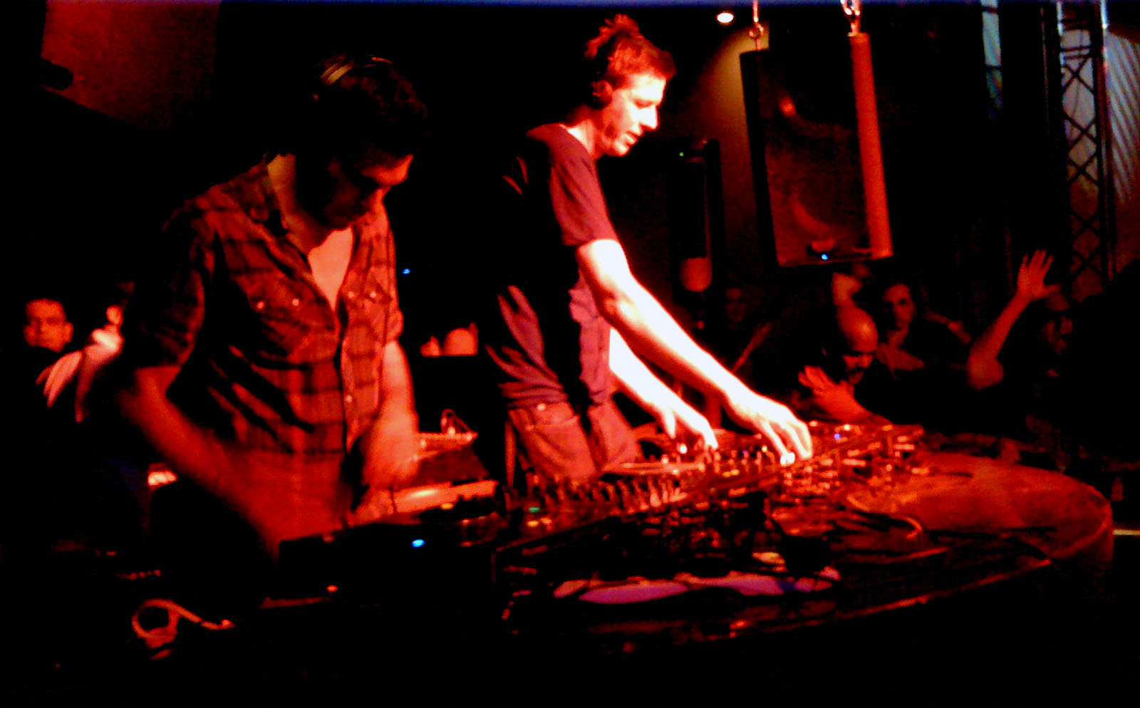 Groove Armada DJing at Chi Club Dubai in April 2010